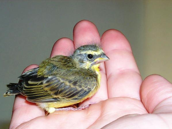 Crithagra mozambica (syn. Serinus mozambicus), captive